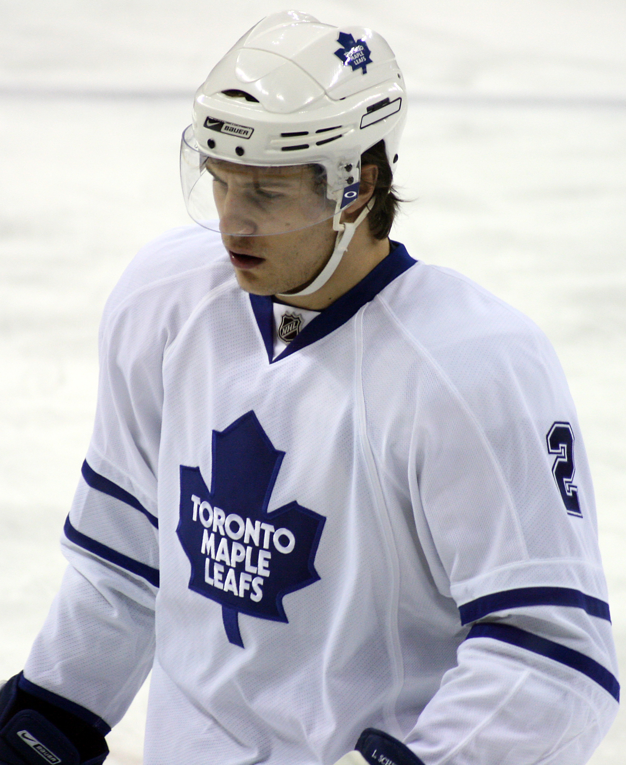 Luke Schenn of the Toronto Maple Leafs